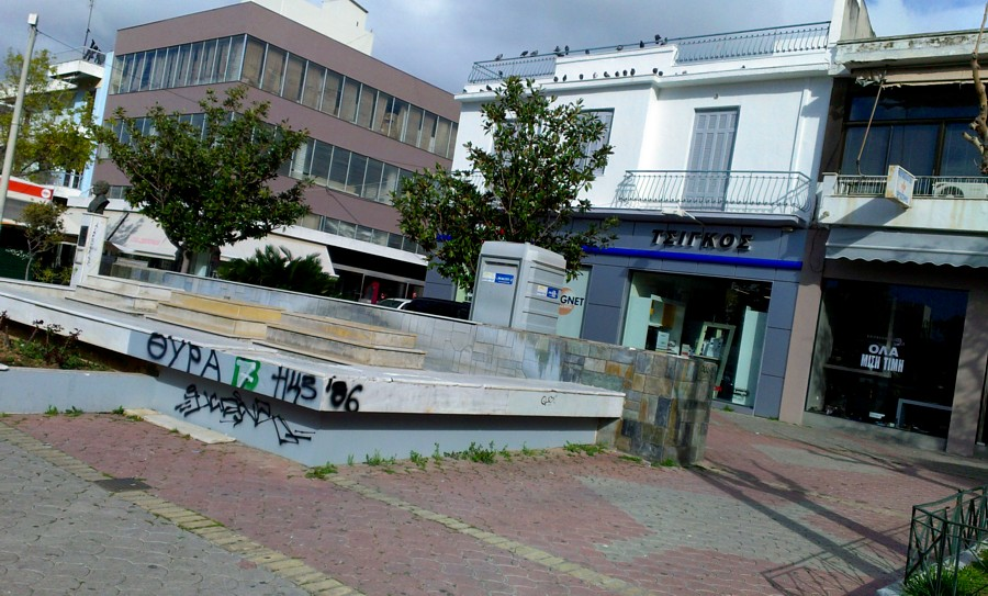 ilion